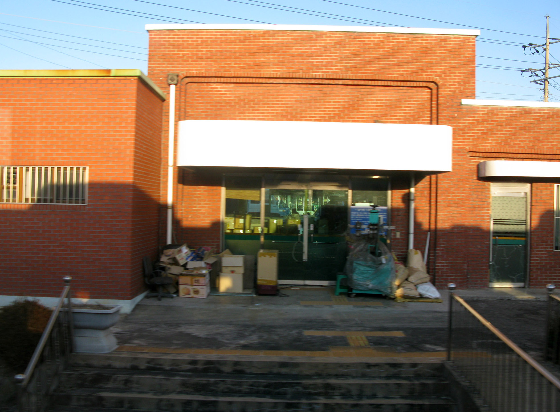 Daegu, Jungang Line Bukyeongcheon Station